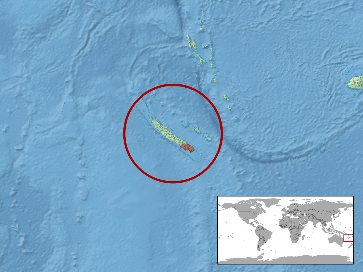 geographic distribution of Lioscincus tillieri